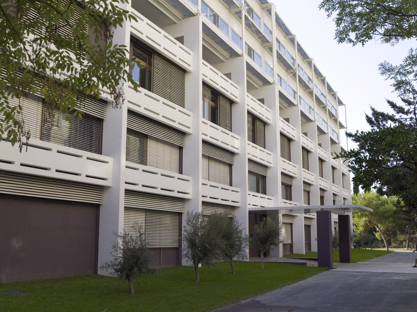 Medical School in Split, photograph of the main entrance